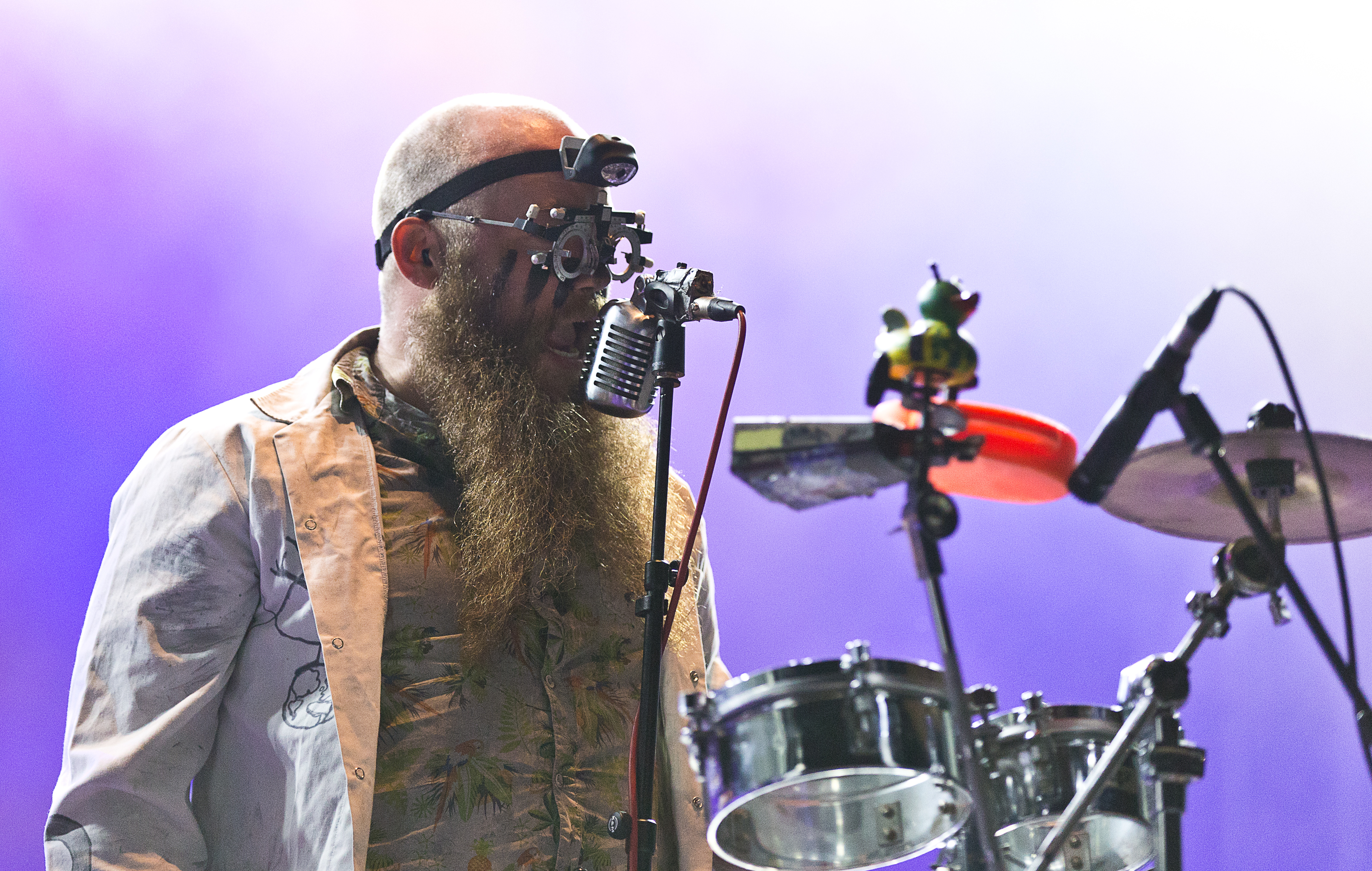 The Norwegian folk metal band Trollfest at the Rockharz Open Air 2015 in Ballenstedt/Germany.